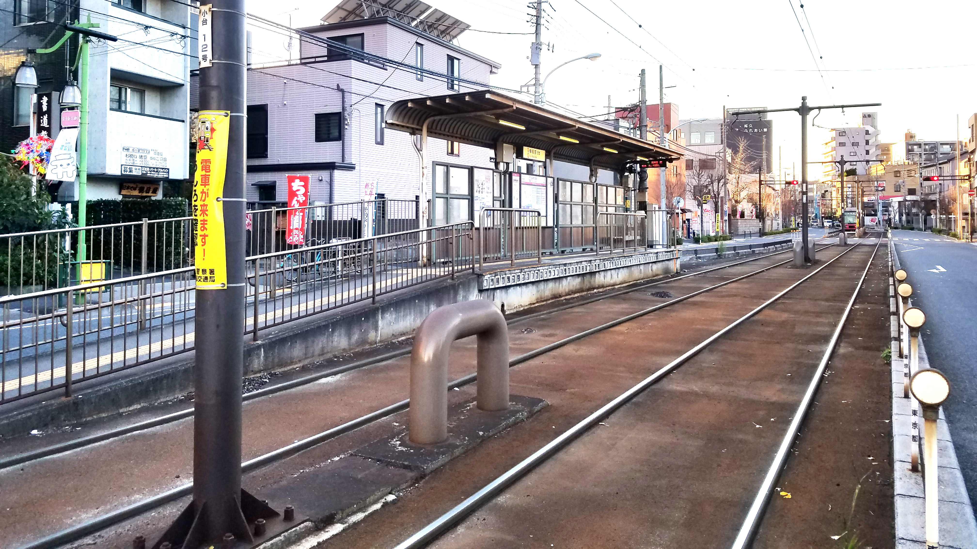 The Waseda-bound platform at Miyanomae Station on the Toden Arakawa Line(Tokyo Sakura Tram) in Arakawa city, Tokyo, Japan